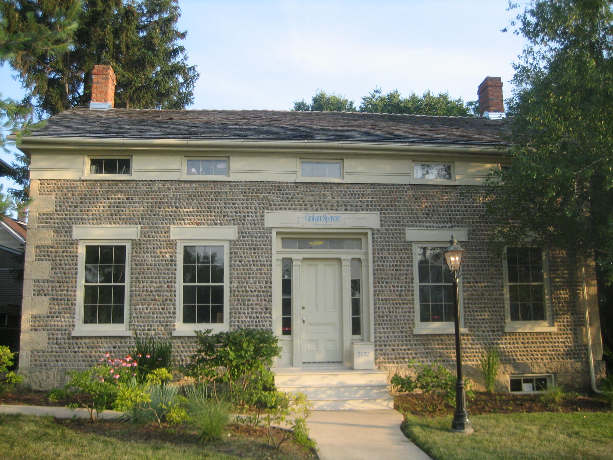 Herrick-Logli Cobblestone House, Rockford, Illinois, United States. U.S. National Register of Historic Places.